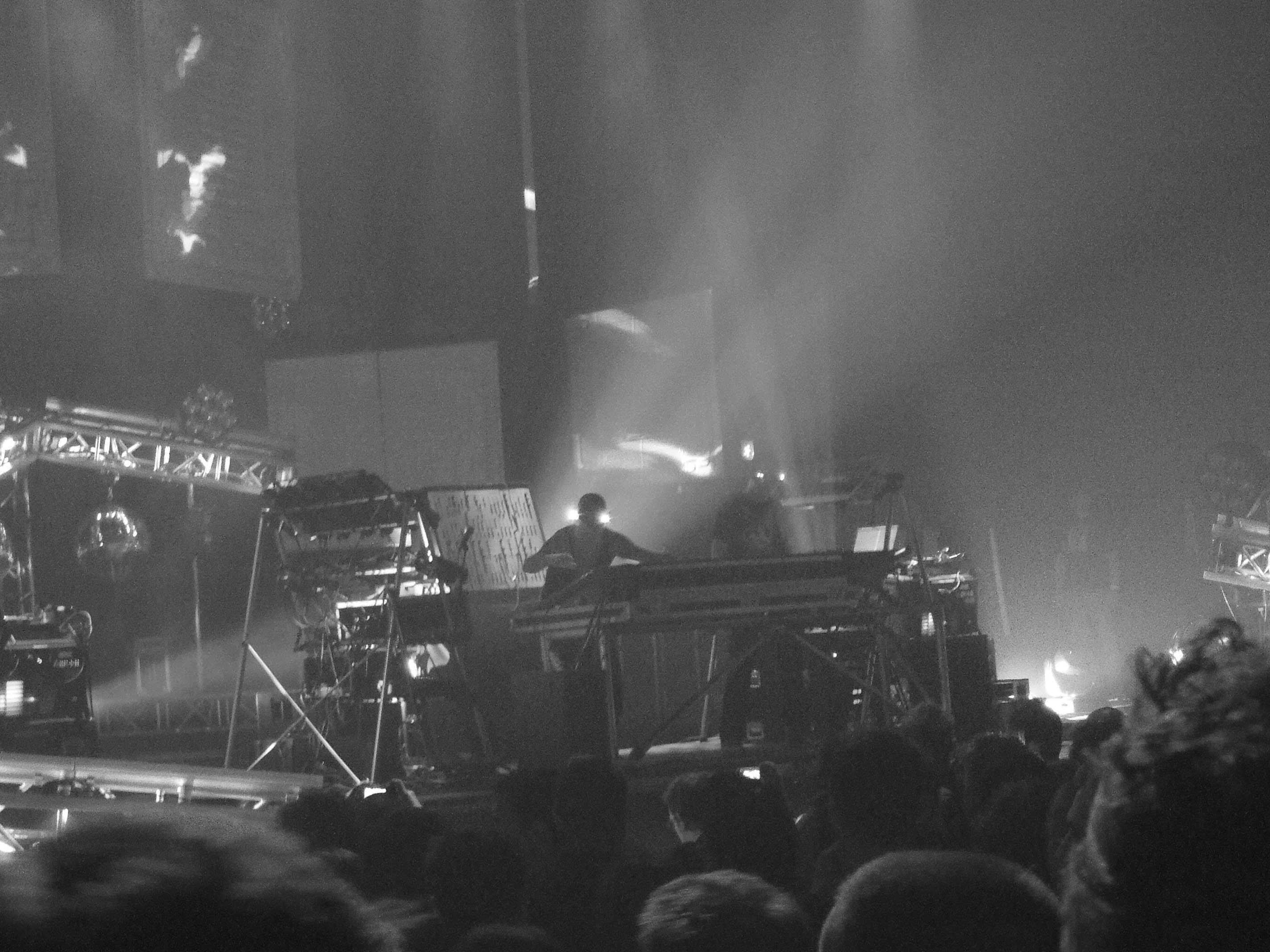 Orbital @ Brixton Academy 2009